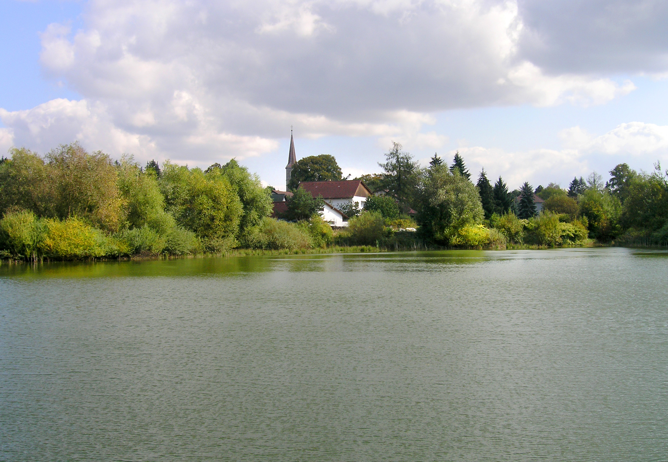 Návesní pond in Mukařov, Czech Republic